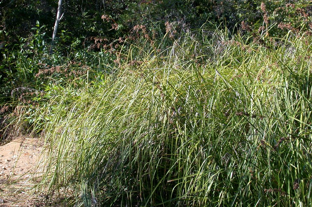 Cladium chinense(Cyperaceae) Japanese name:Hinokisida Date;2003,10,5;Tanabe city, Wakayama prefecture, Japan Author;Keisotyo